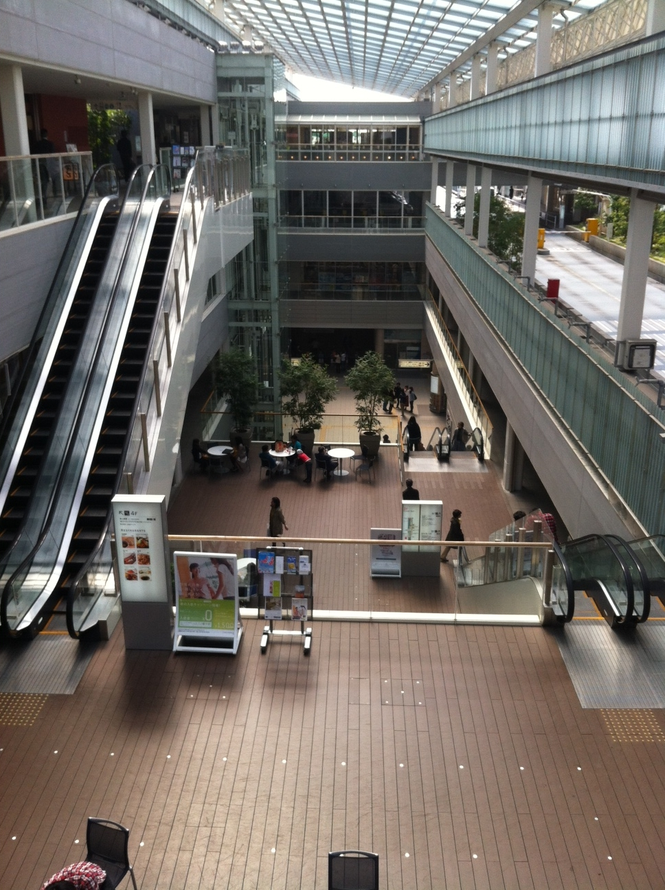 Seijyo-gakuenmae Sta. of Odakyu , Tokyo-pref.